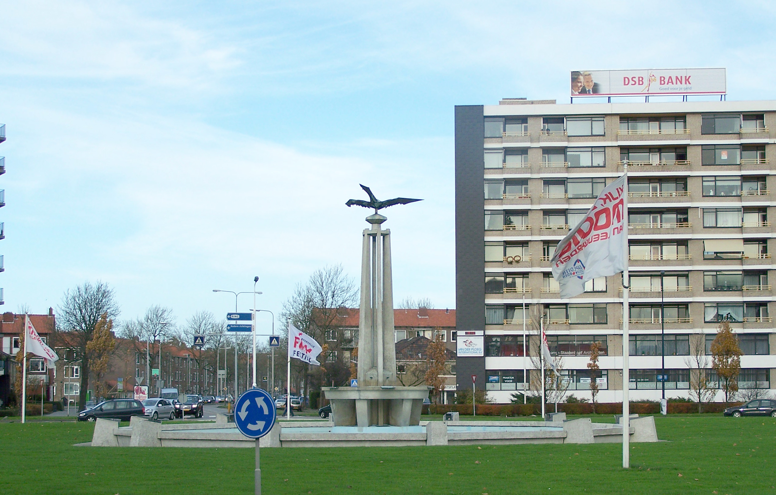 Fountain at the Europaplein in Leeuwarden. Designed by architect Ir. J. E. Wiersma with a sculpture on top by Chris Fokma. A gift to celebrate the 50th anniversary of the Coöperatieve Zuivelbank (Friesland bank).